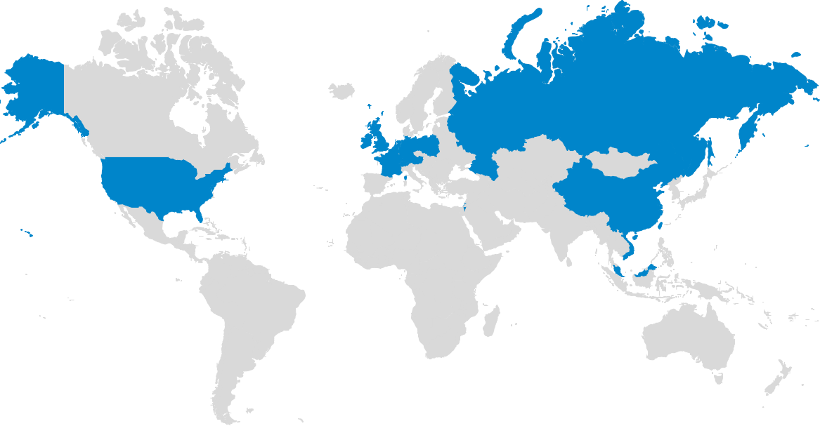 Location Map Exyte